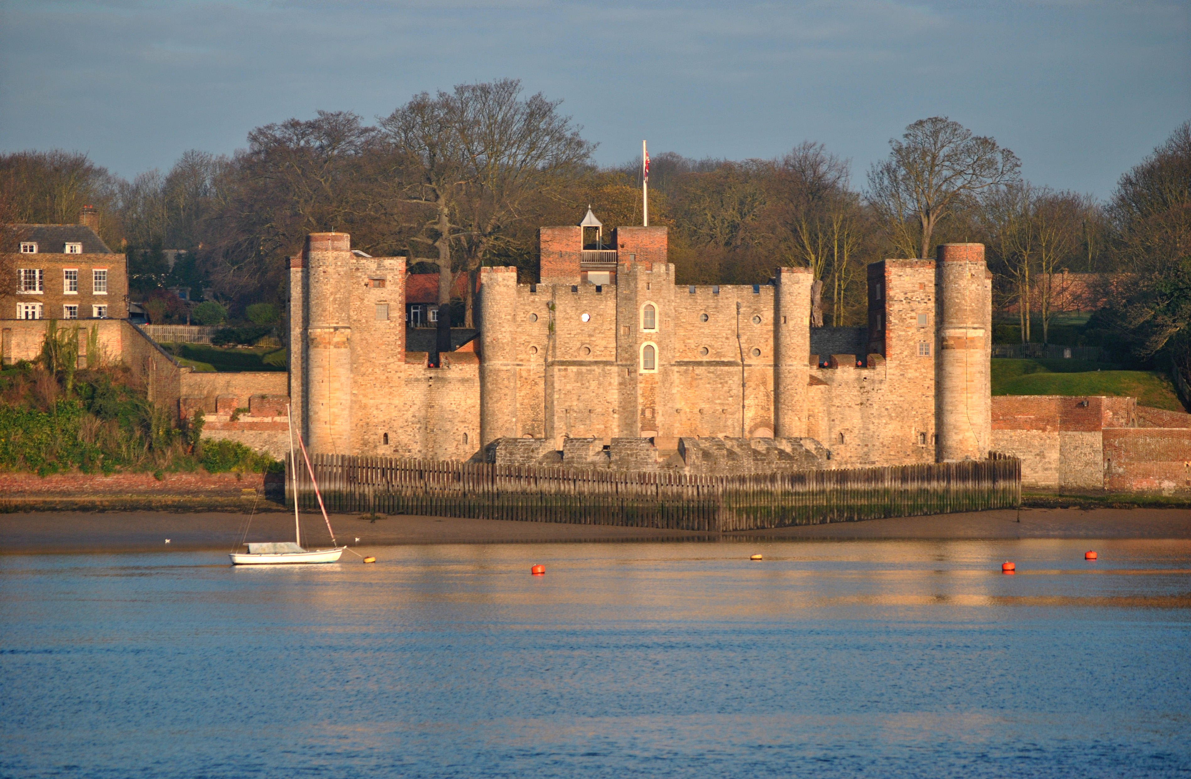 Riverside view of Upnor Castle, Kent